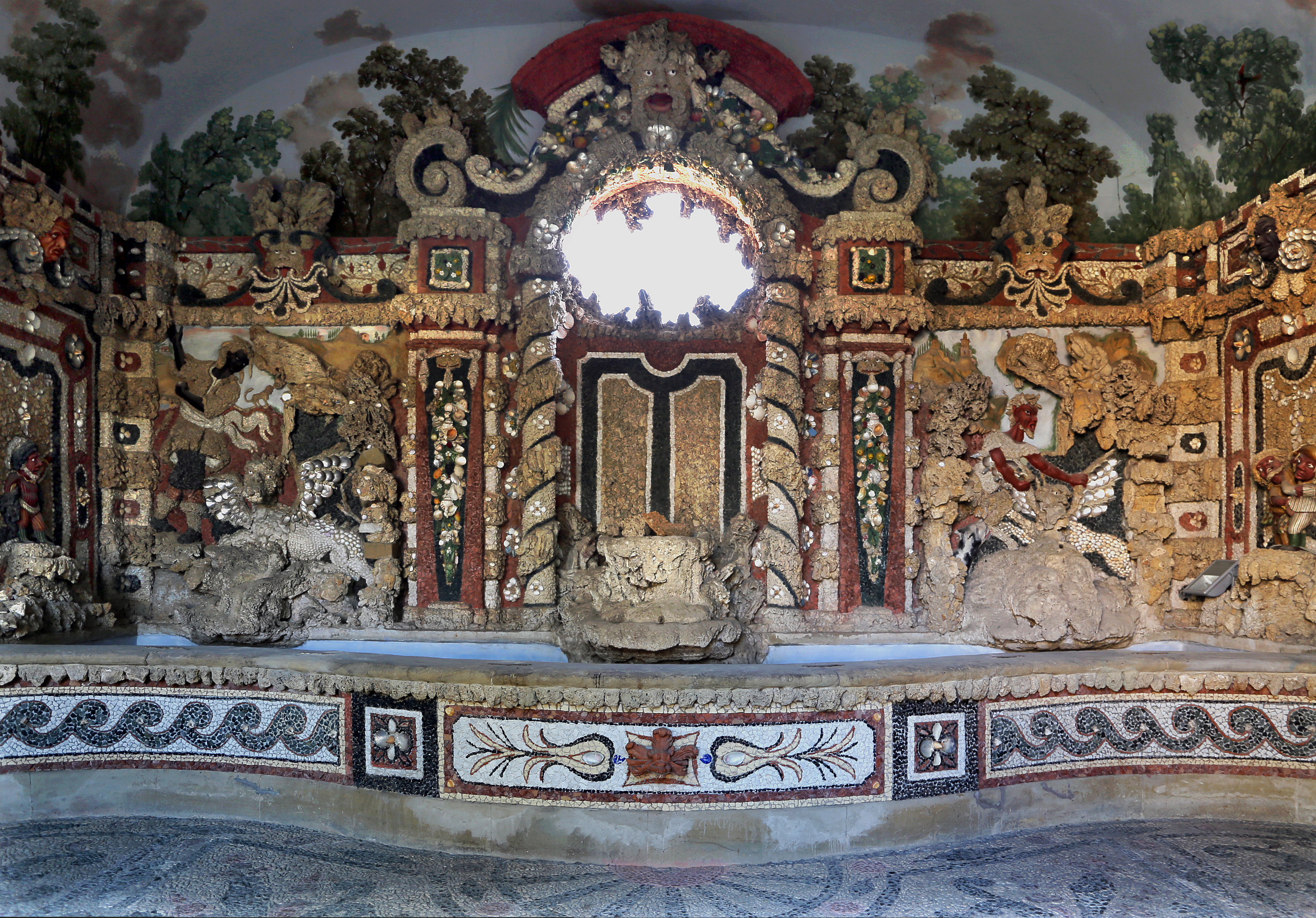 Ninfeo Niccolini